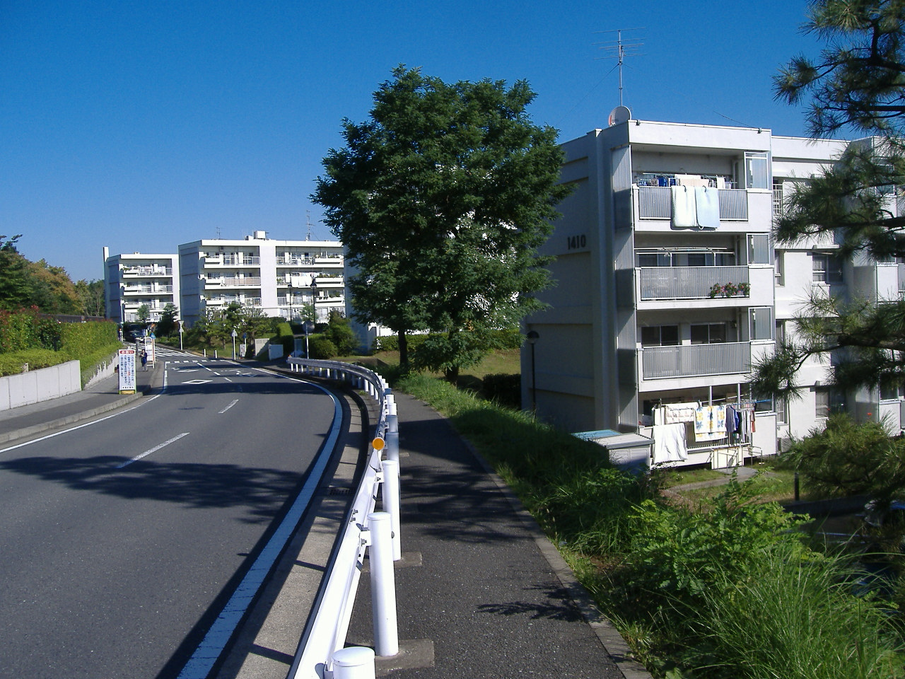 Shiomidai Danchi (Yokohama, Japan)